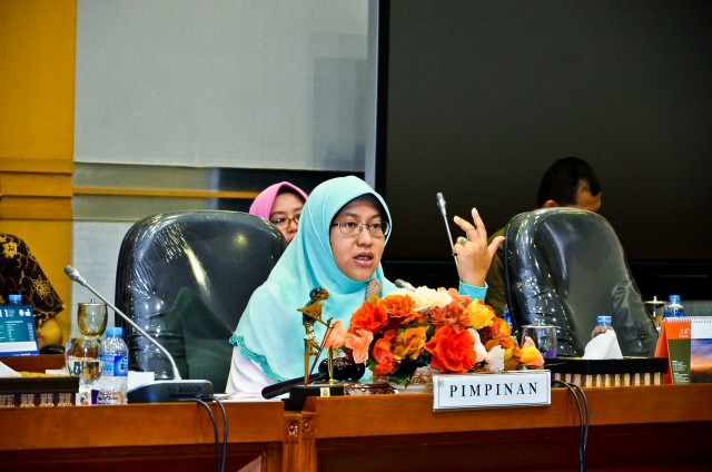 Ledia Hanifah Wakil Ketua Komisi VIII